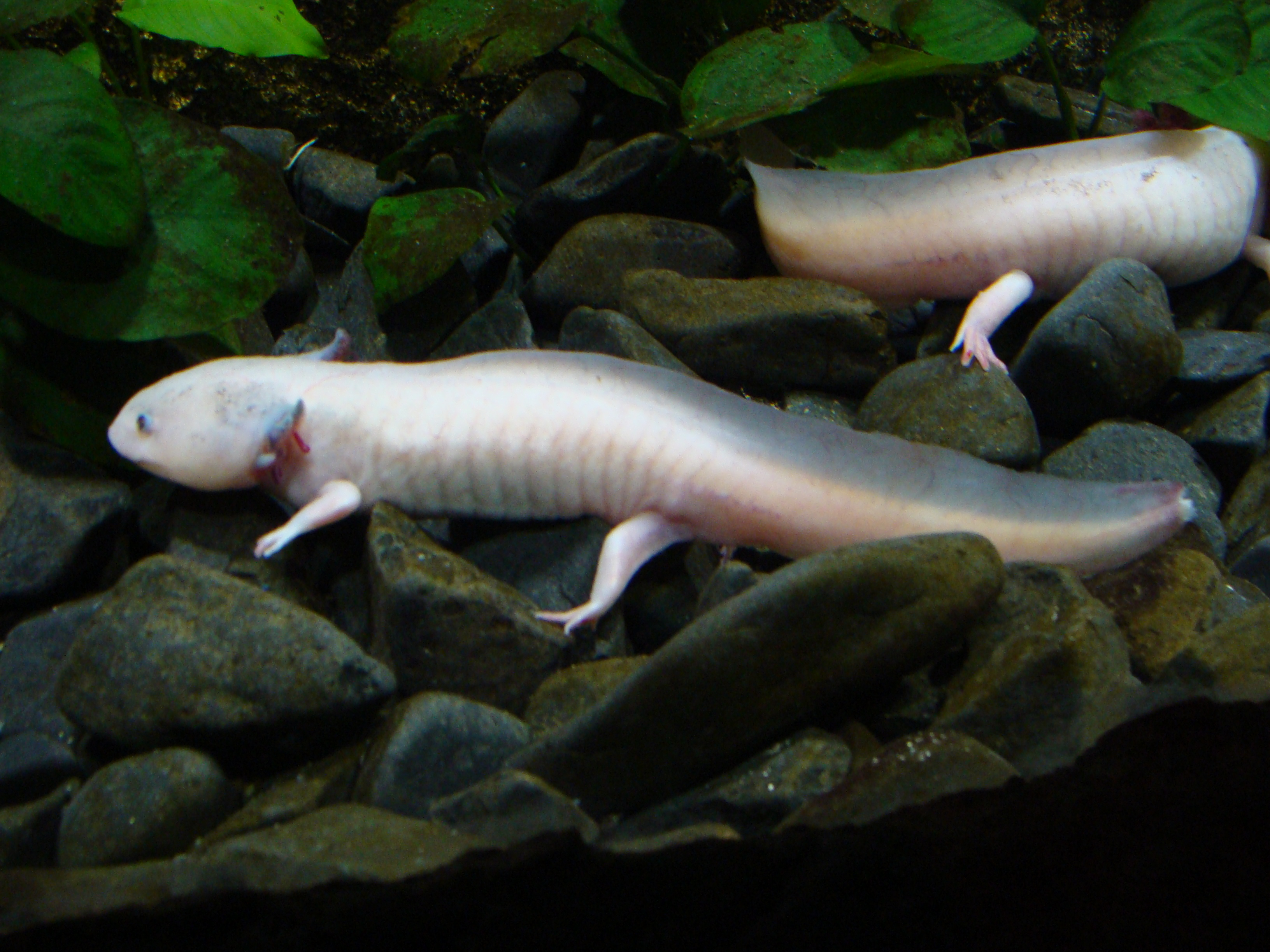 Ambystoma mexicanum (axolotl) in the Park of Faunia, Madrid, Spain.